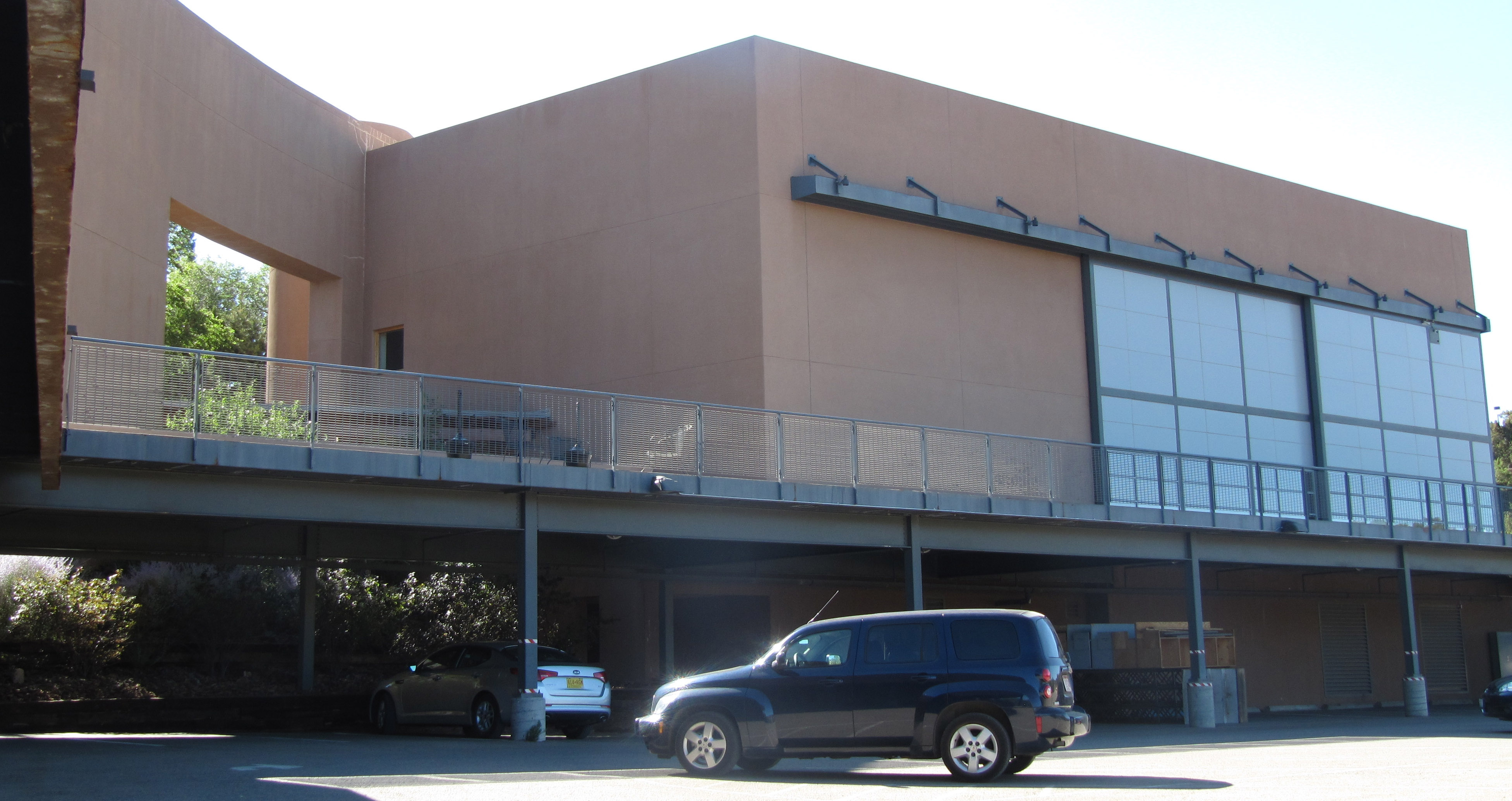 Stieren Hall at The Santa Fe Opera was primarily created as the orchestra's rehearsal space